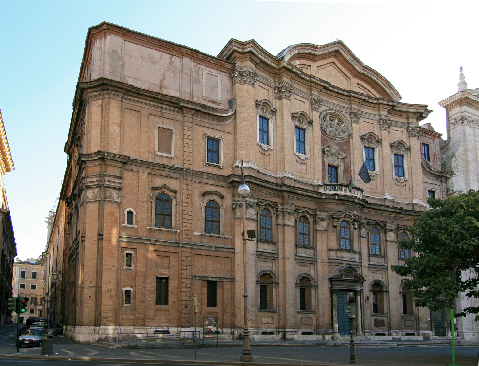 Oratorio dei Filippini, Piazza della Chiesa Nuova, Rome.